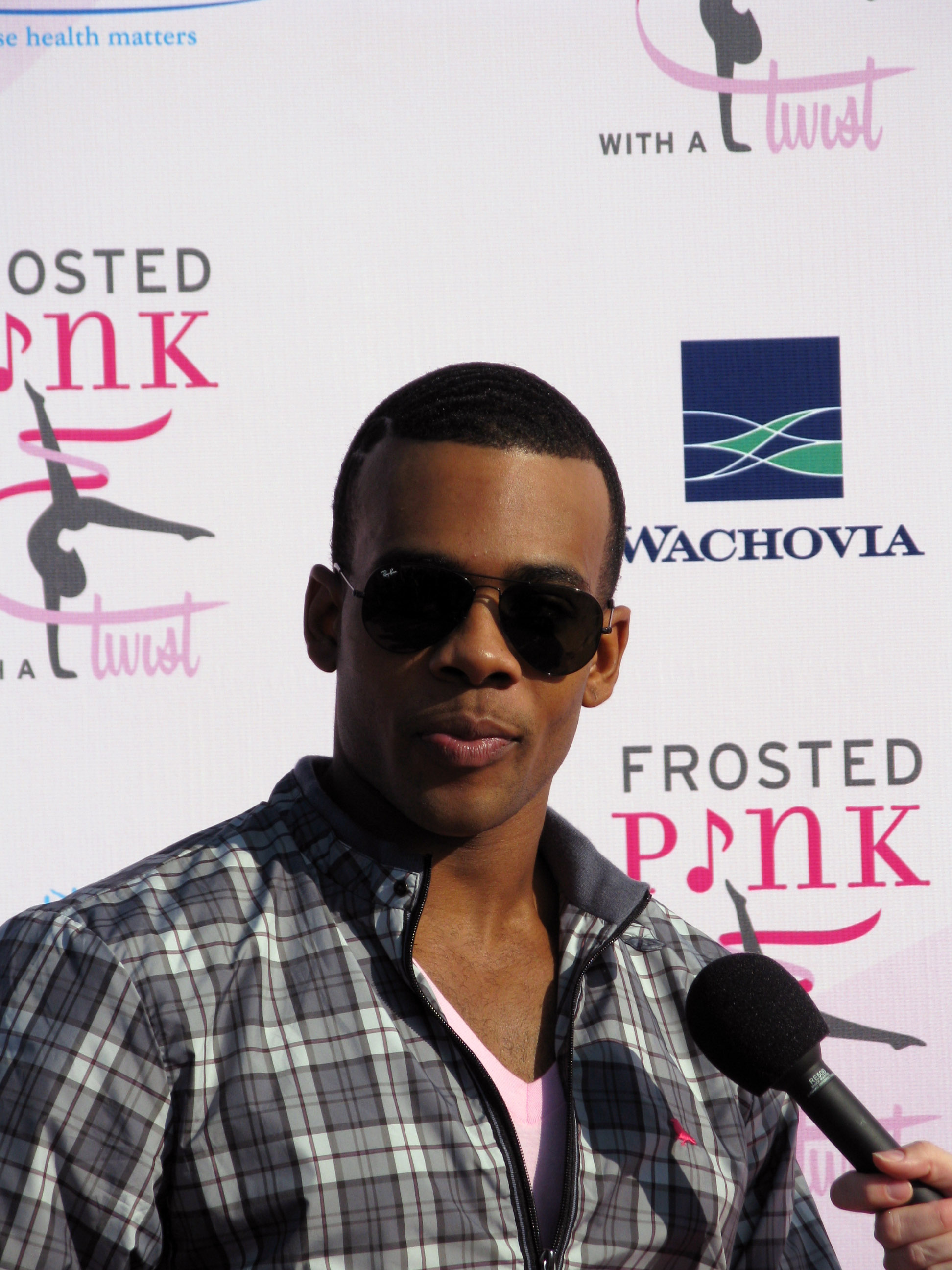 San Diego, California on September 14th, 2008